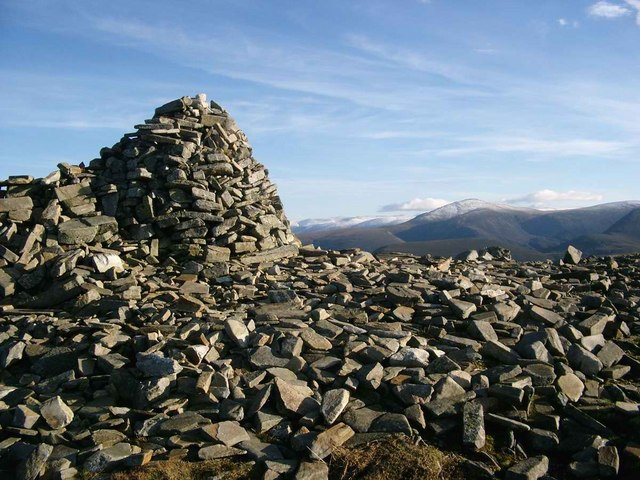 Summit cairn on Meall a Bhuachaille A dusting of snow on Bynack More in the distance.